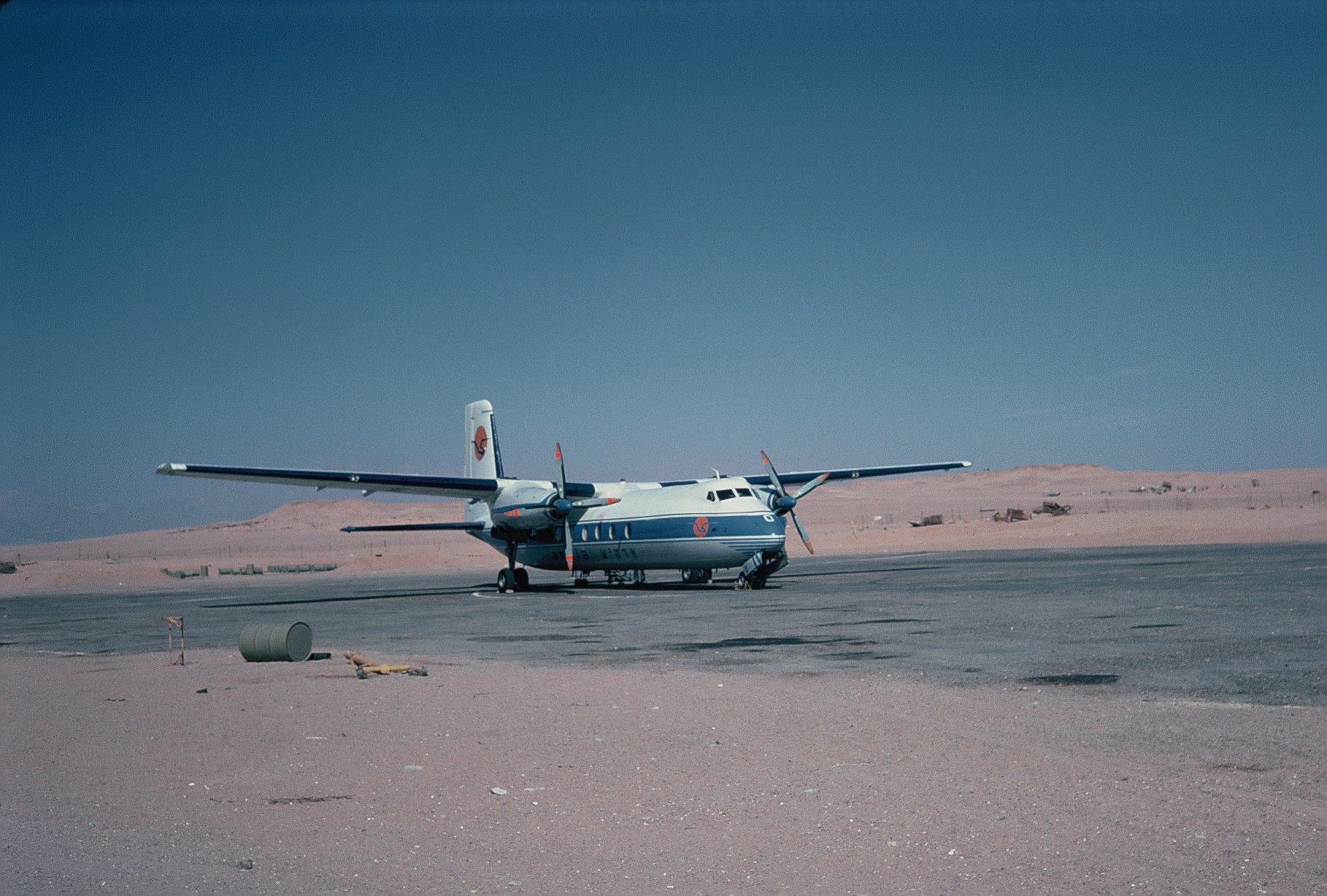 Arkia Herald at Abou Redis landing strip